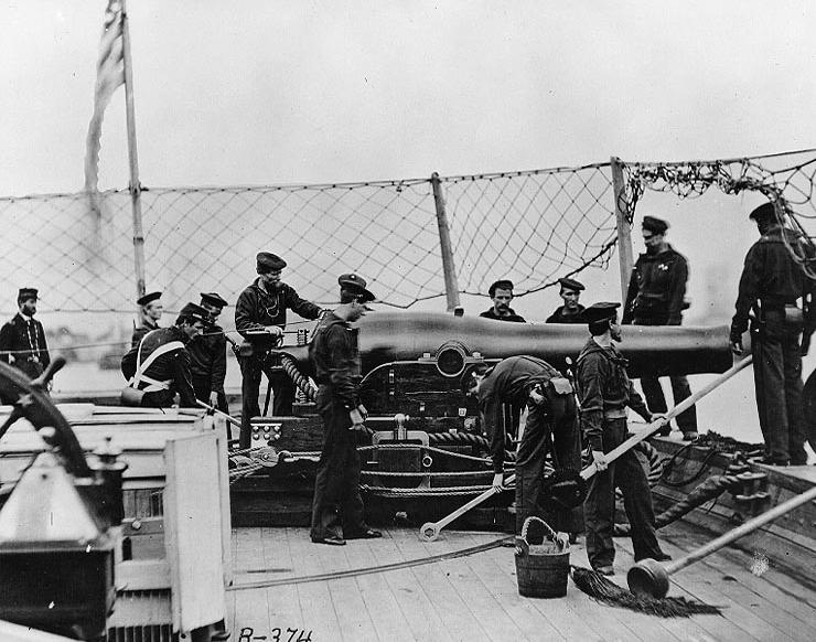 9 inch Dahlgren cannon on USS Miami